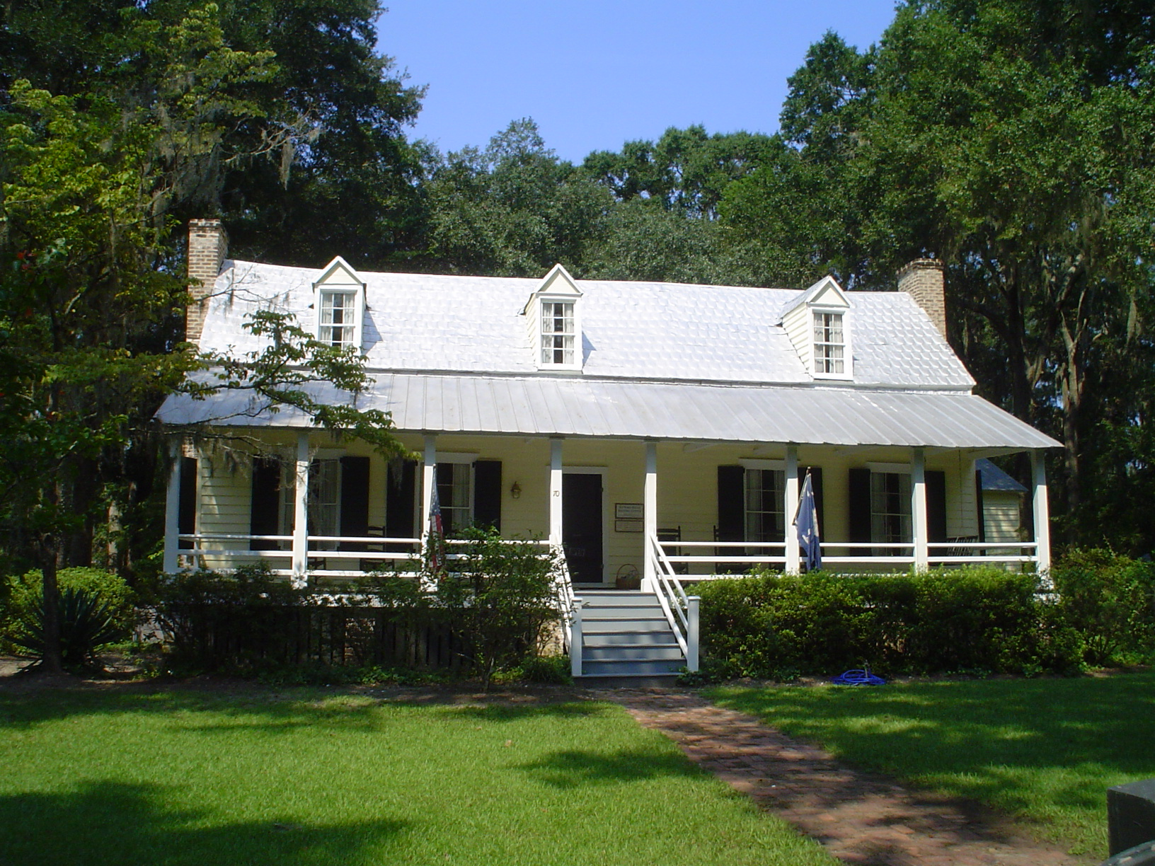 The Heyward House in 2005